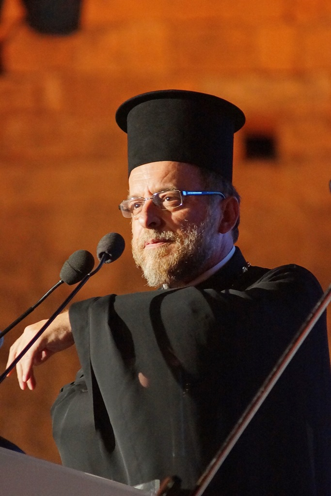 Preventing World War Through Global Solidarity: 100 Years On